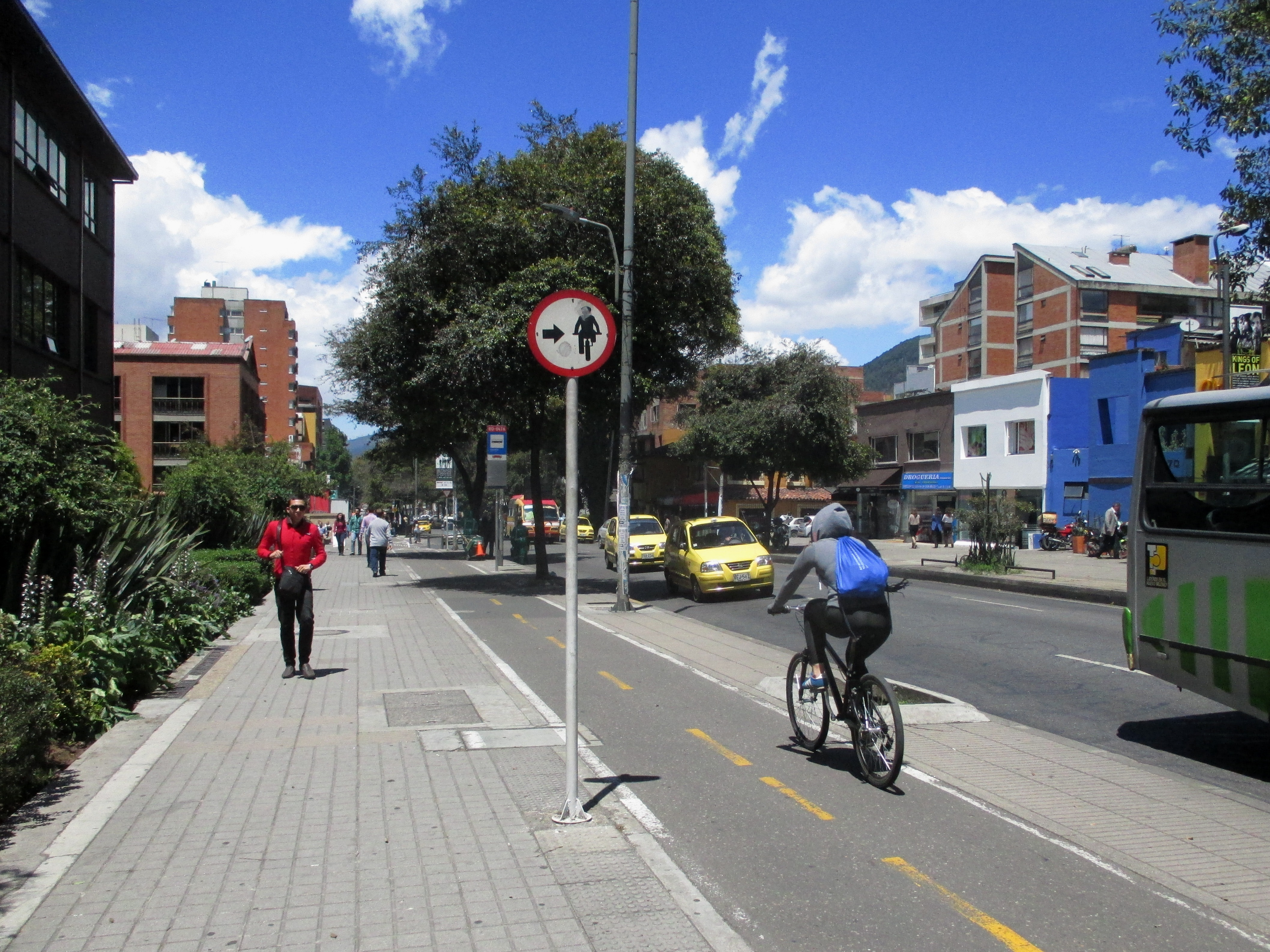 Bogotá